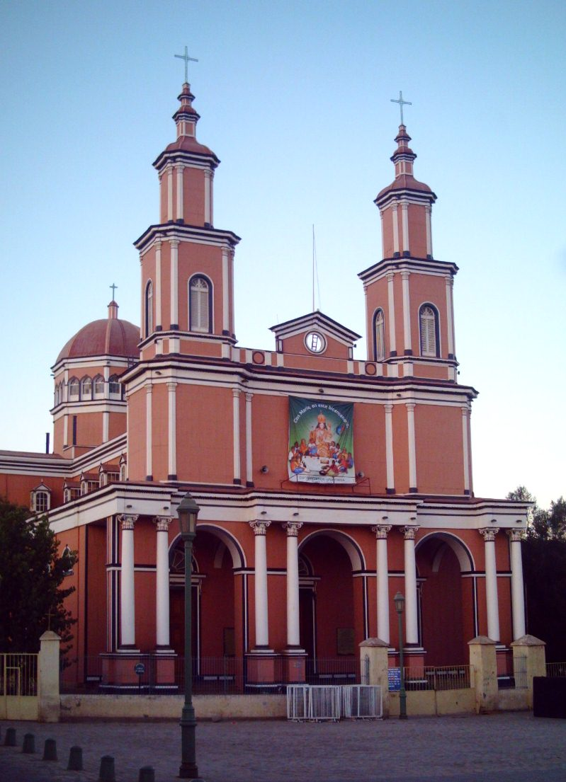 Great Church of Andacollo (Chile) This is a photo of a national monument in Chile: 604